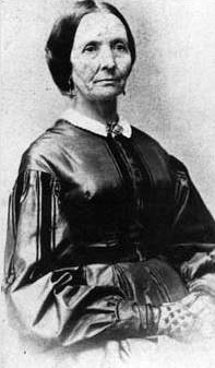 Photograph of Eliza Roxcy Snow Young, the second general president of the Relief of The Church of Jesus Christ of Latter-day Saints (LDS Church). Snow was a wife to Brigham Young, and claimed to be a plural wife of Joseph Smith, Jr.. A renowned poet, Snow chronicled history, celebrated nature and relationships, and expounded scripture and doctrine.